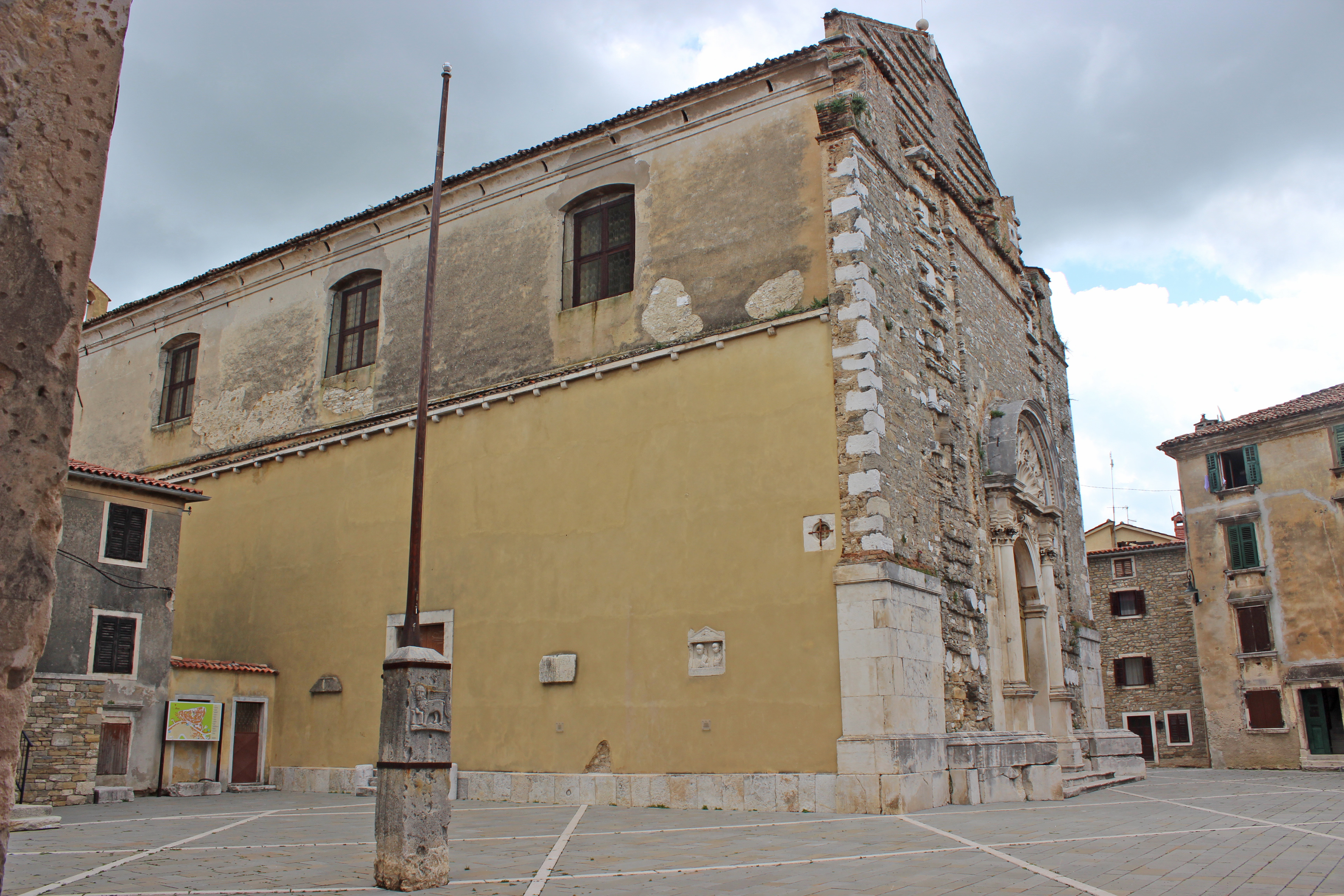 Church of Saint Servul (Župna crkva Sveti Servula), in the foreground stone base for flagpole. in Buje, Croatia